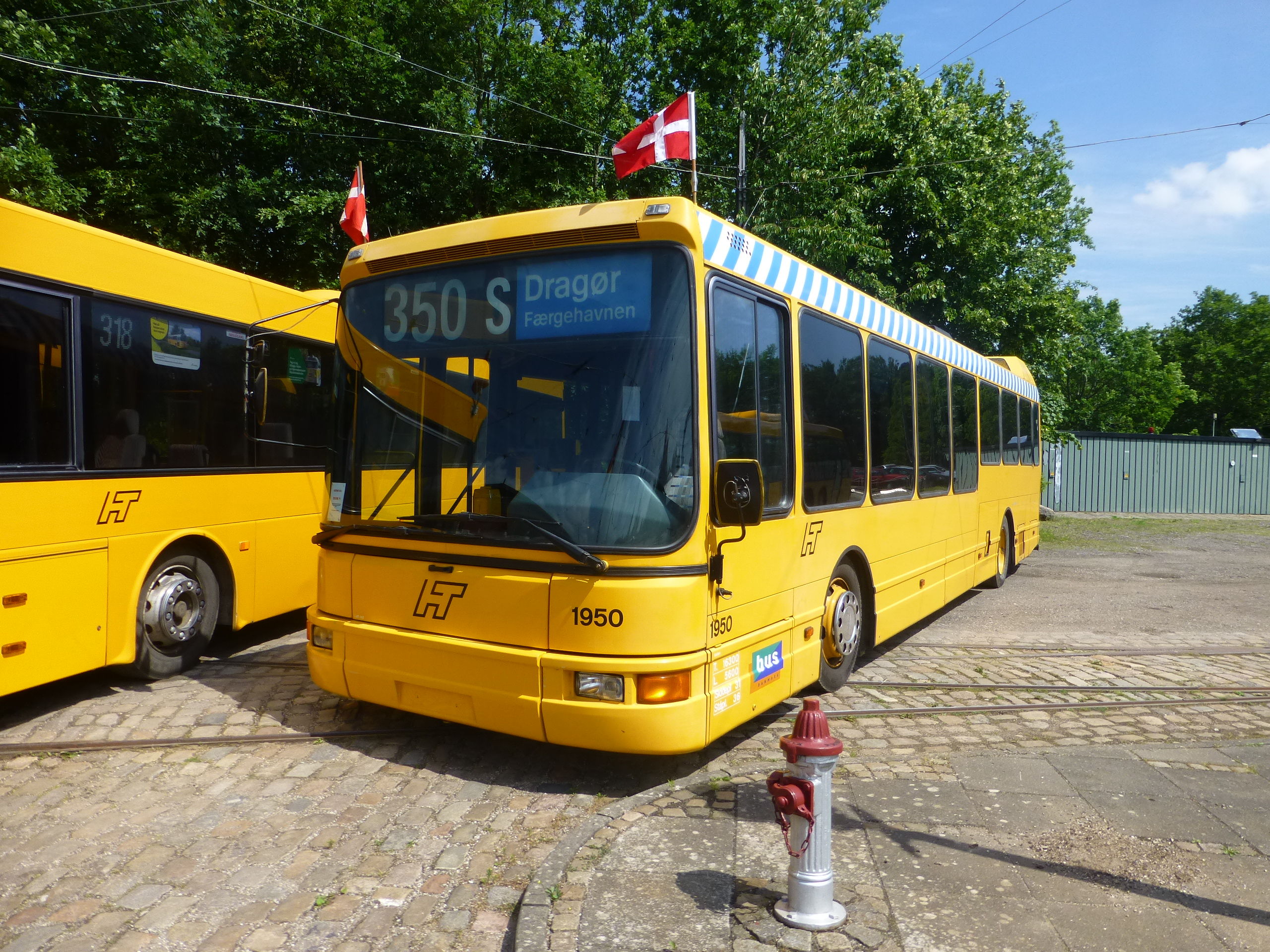 Old bus from Copenhagen Busdanmark 1950 at the celebrating of 100 years of motor buses in Copenhagen on Sporvejsmuseet Skjoldenæsholm in Denmark.